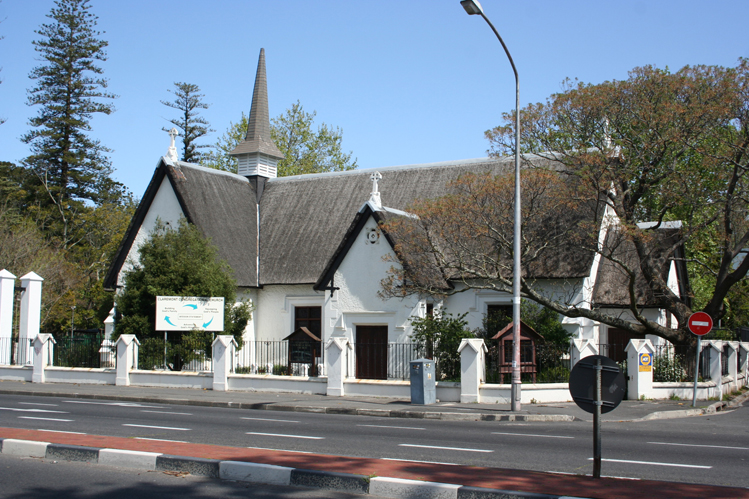 Claremont Congregational Church in Claremont, Cape Town This media shows a South African Protected Site with SAHRA file reference 9/2/111/0069.